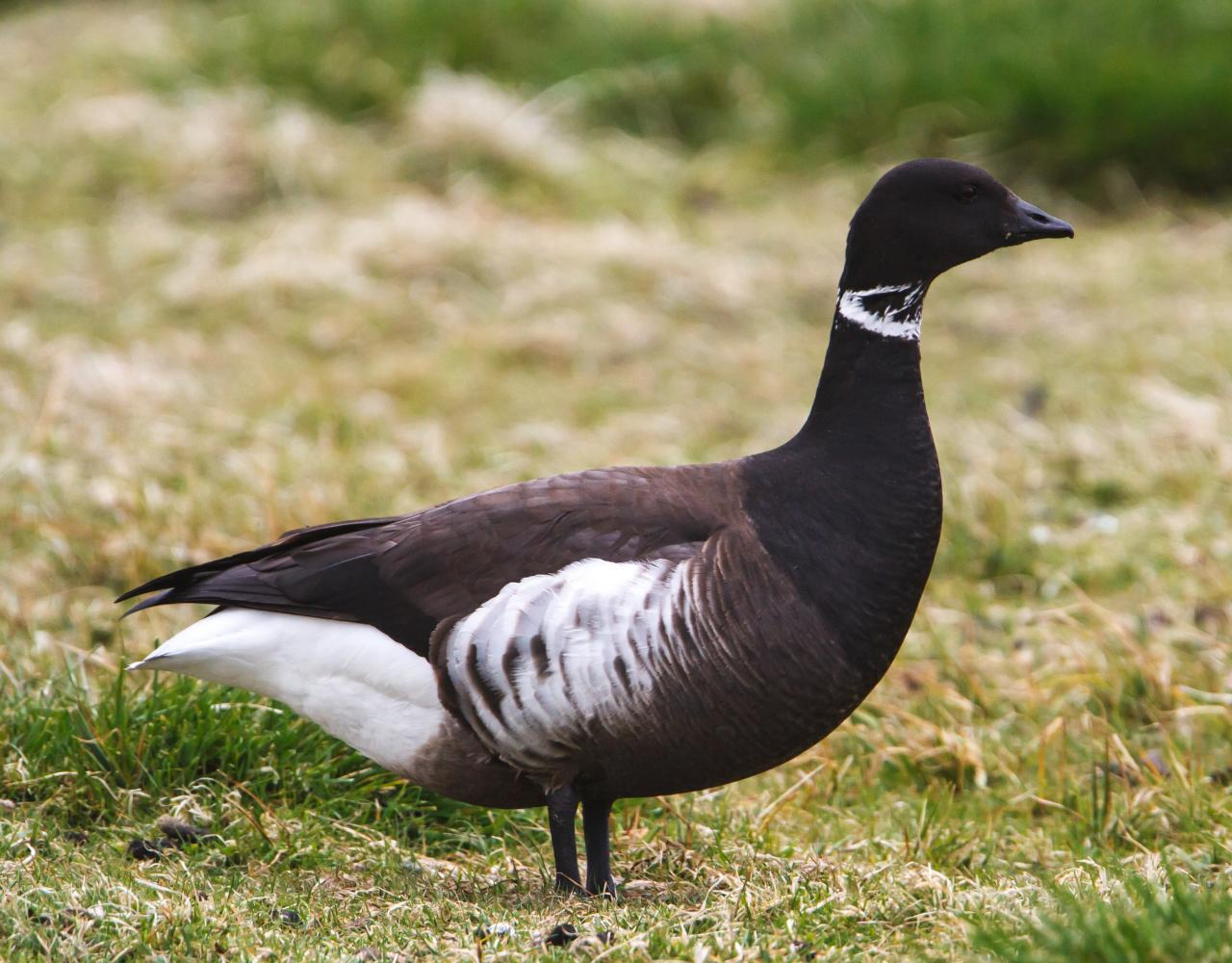 A Brant Goose in Iceland. This subspecies is know at the Black Brant